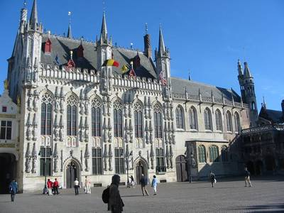 Town hall of Brugge